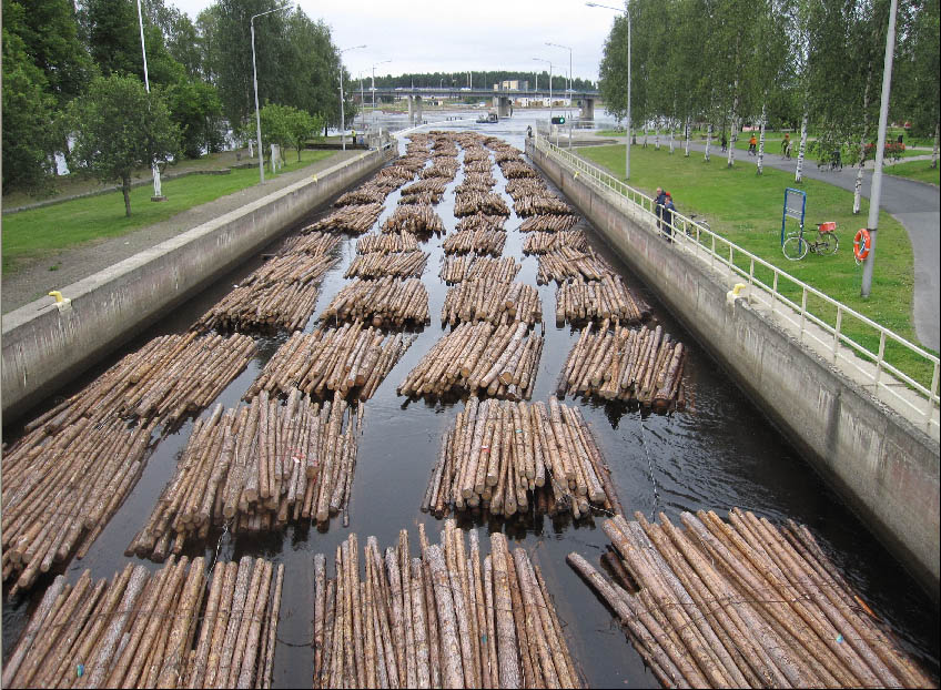 Timber floating on Joensuu canal on Pielisjoki River in Joensuu, Finland